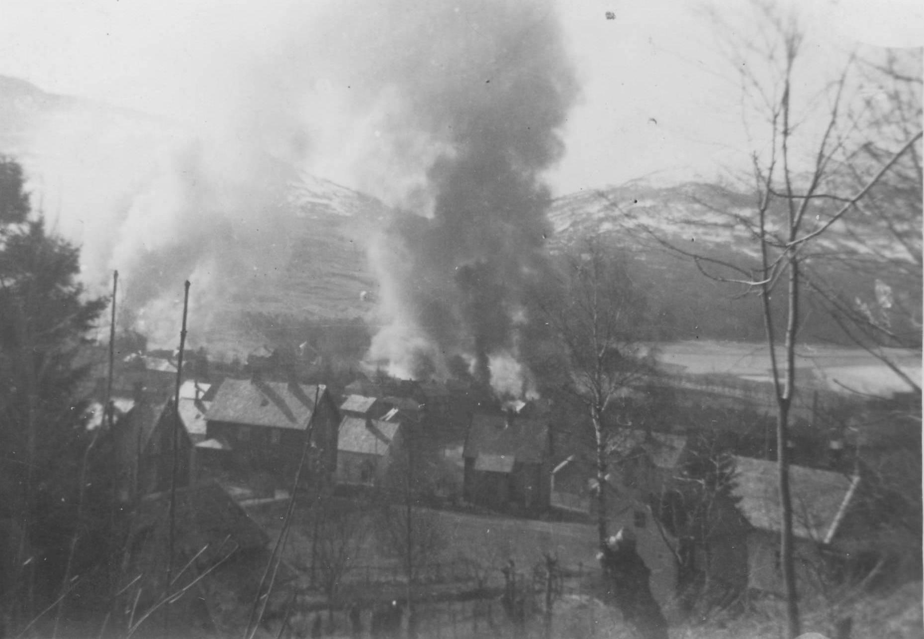 A fire after a bombing in Voss